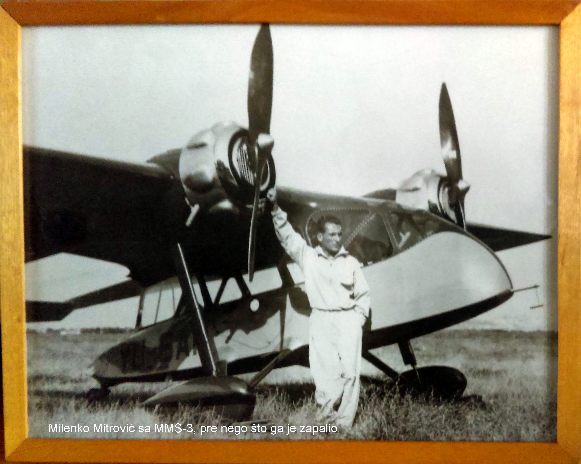 Milenko Mitrovic with MMS-3, before he set it on fire, to prevent Germans to take it (1941).